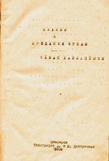 Chuvash Anthology (1908)